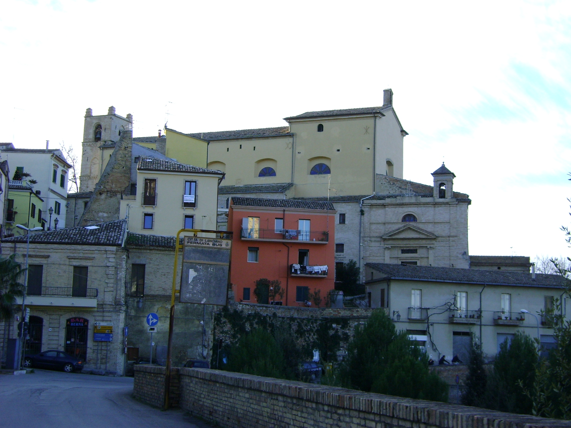 The church of San Nicola di Bari, Lanciano, province of Chieti, Abruzzo